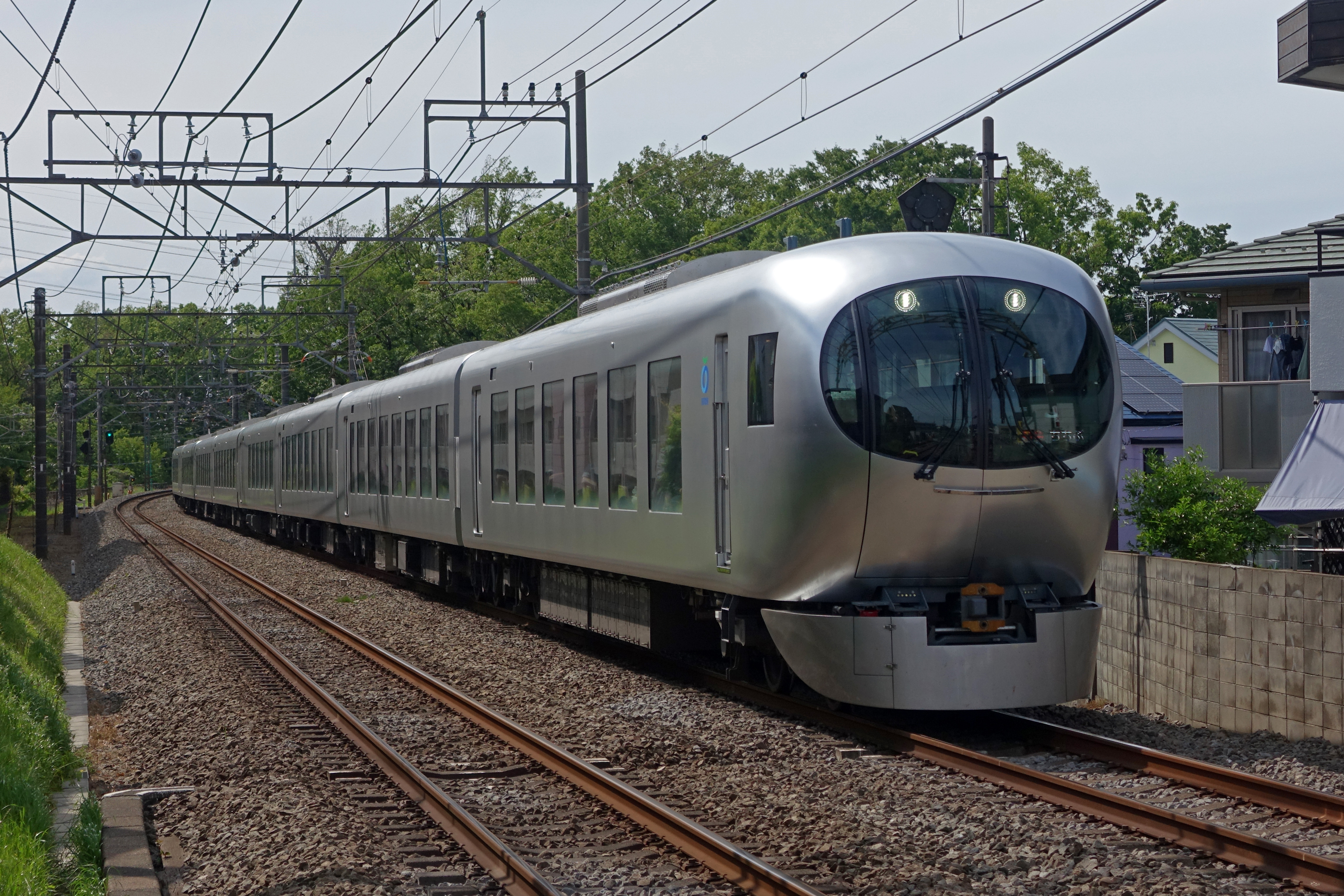 Seibu 001 series on Seibu Ikebukuro line near Akitsu station.